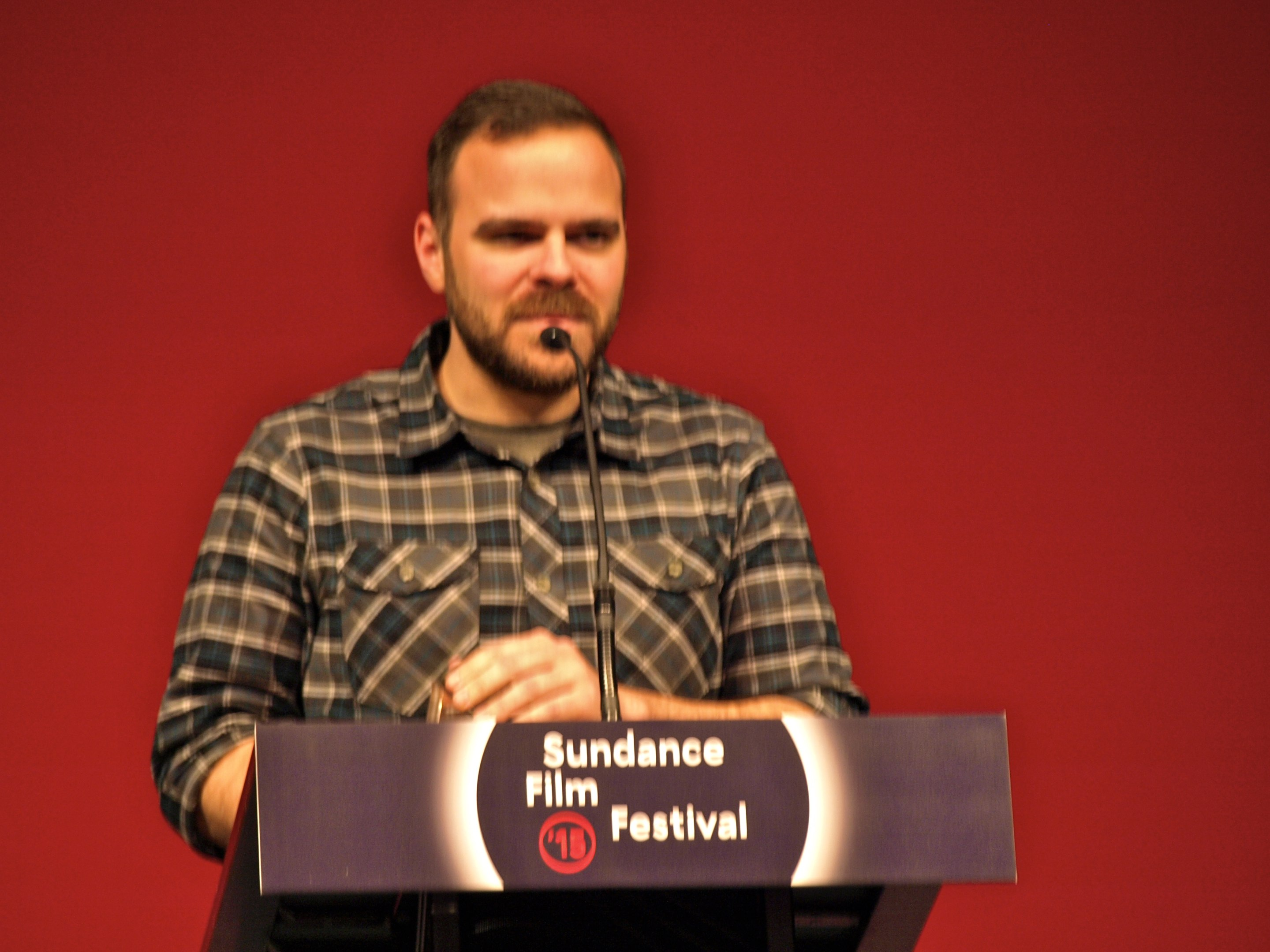 Kyle Patrick Alvarez Winner of the Alfred P. Sloan Feature Film Prize: "The Stanford Prison Experiment" at Sundance 2015